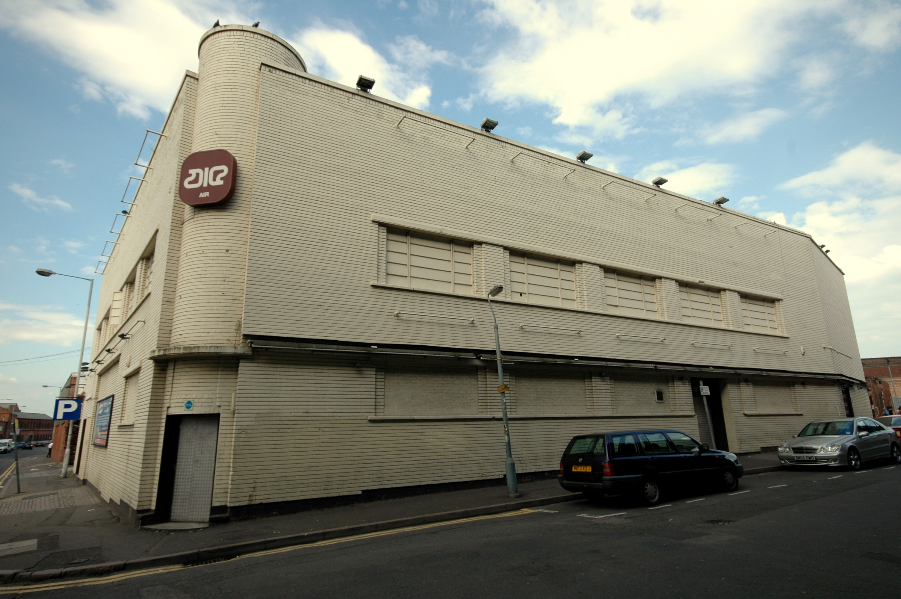 A view of the Air nightclub in the Digbeth area of Birmingham.